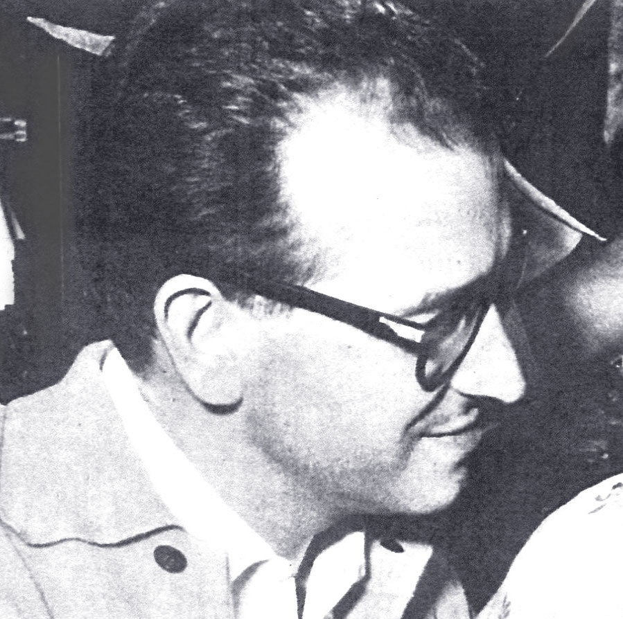 Antonio Pietrangeli, Italian film maker